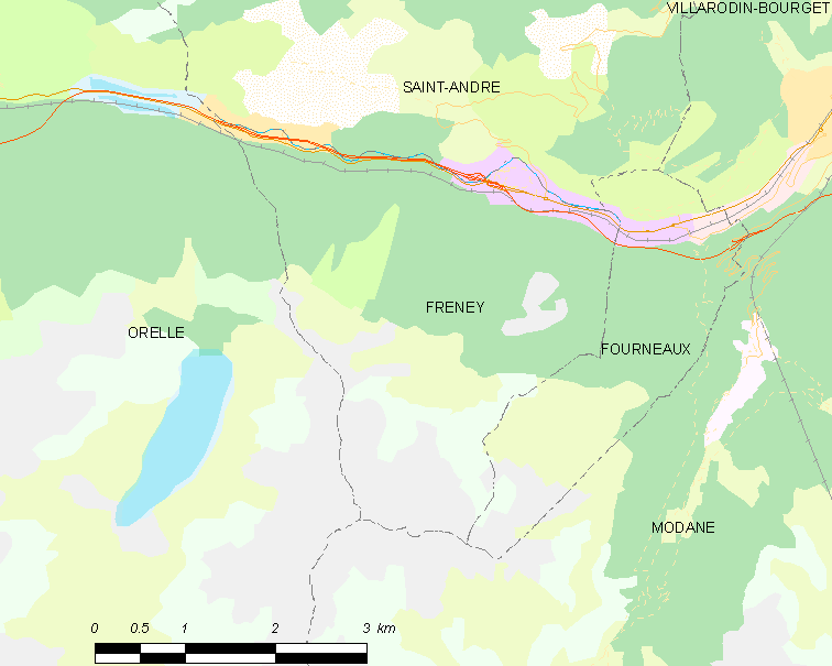 Map of French municipality